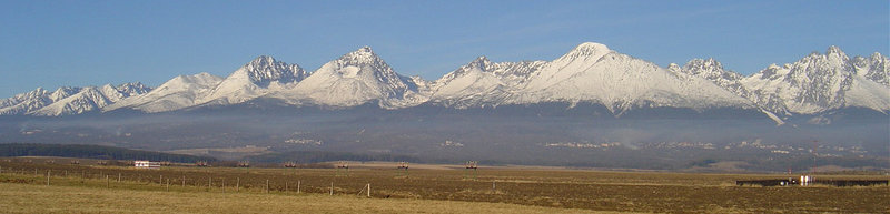 Panorama of The High Tatras from Veľká, quarter of Poprad